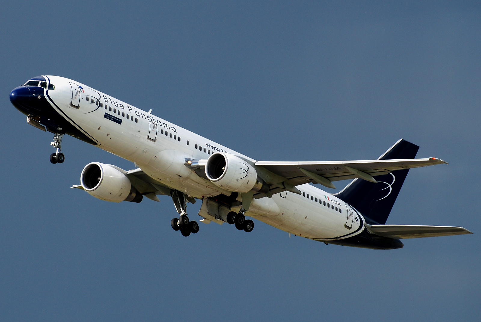 Blue Panorama 757 EI-DNA at Edinburgh Airport